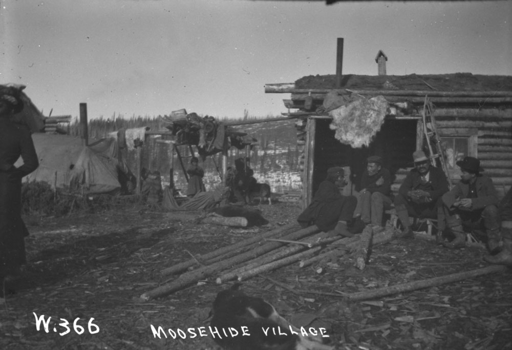 Dawson Indian Band village in Moosehide